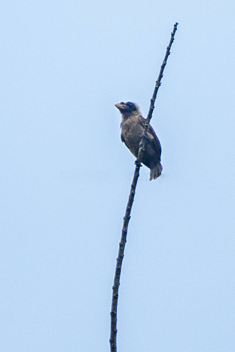 A Bristle-nosed Barbet (Gymnobucco peli) in the Kakum National Park (Ghana)